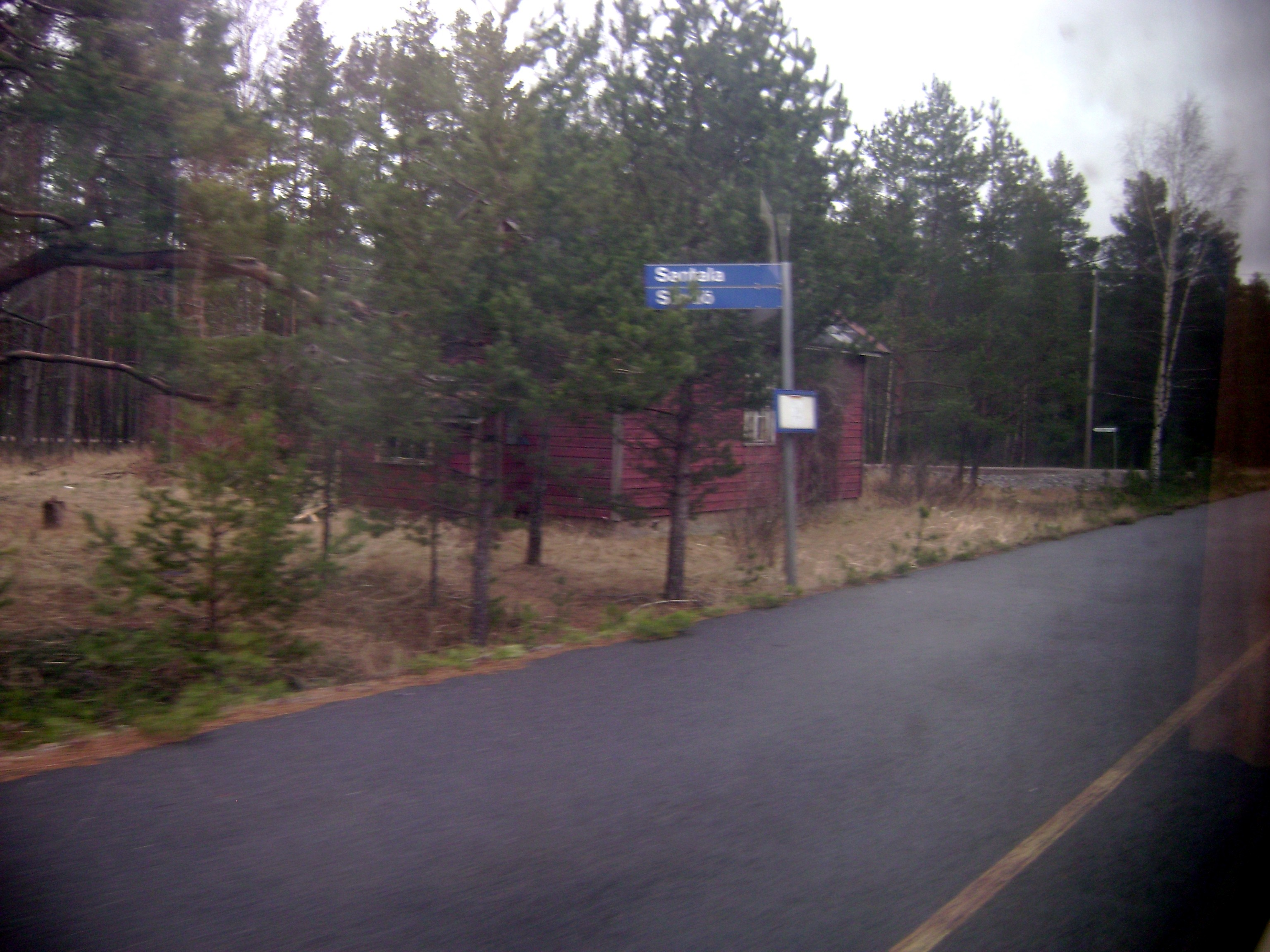 Santala railway halt in Hanko.